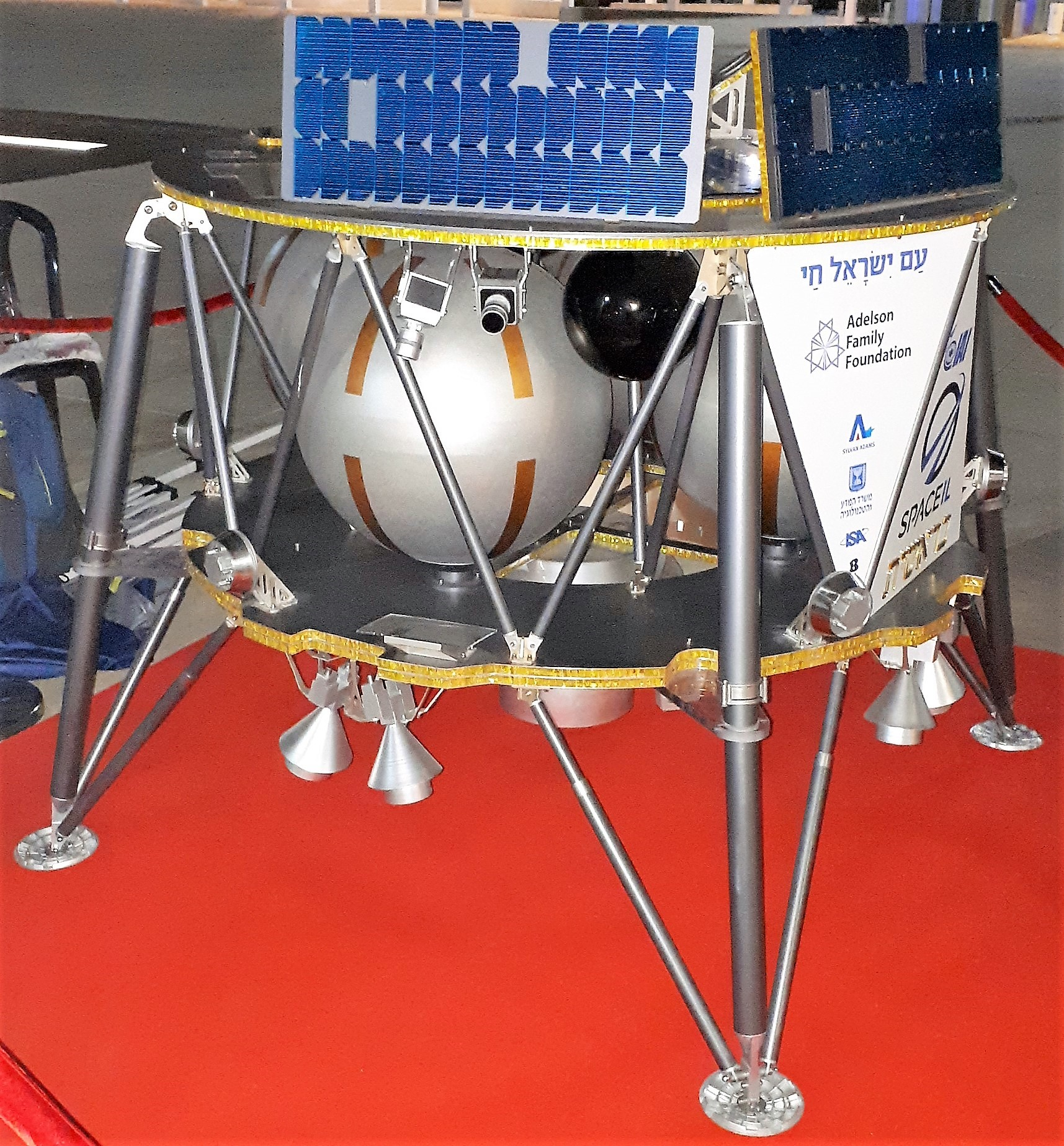 A full scale model of Beresheet moon probe, presented at Habima Square (Tel aviv). Photo taken on the day of its launch.